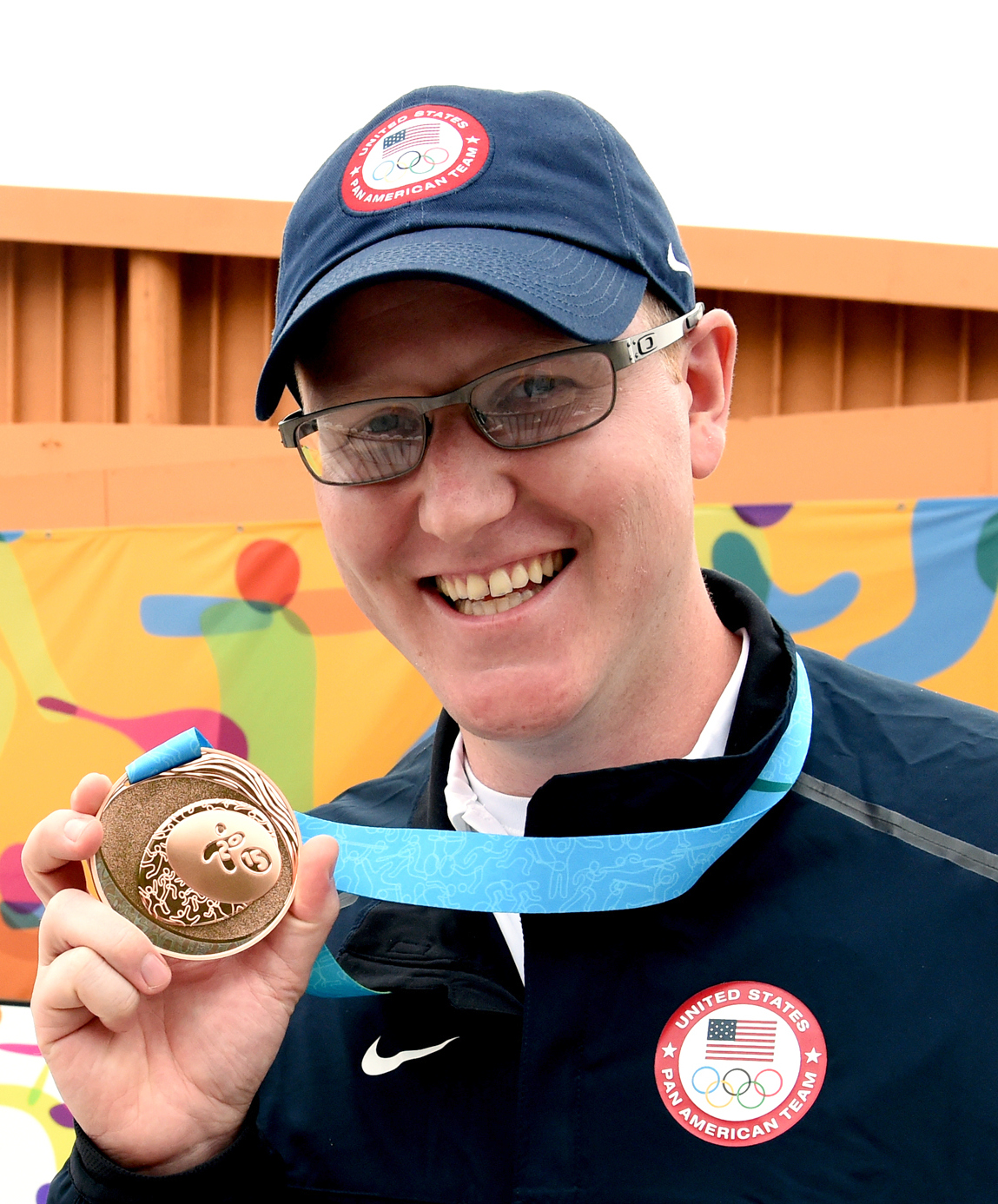 U.S. Army World Class Athlete Program marksman Spc. Bryant Wallizer, a graduate of West Virginia University from Little Orleans, Md., flashes his bronze medal in 10-meter air rifle at the 2015 Pan American Games. He set a Pan American Games record of 624.9 in qualification before dropping to third place in "a dogfight" finals. U.S. Army photo by Tim Hipps, IMCOM Public Affairs